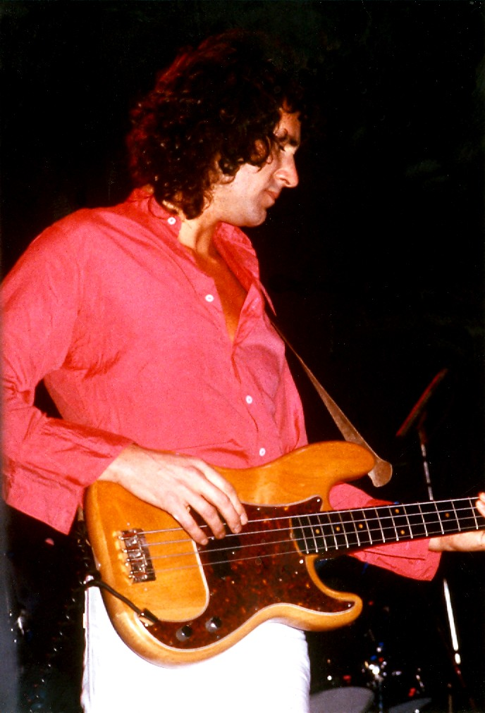 1979 - 6 - Dire Straits - John Illsley, bass player for the rock band, Dire Straits